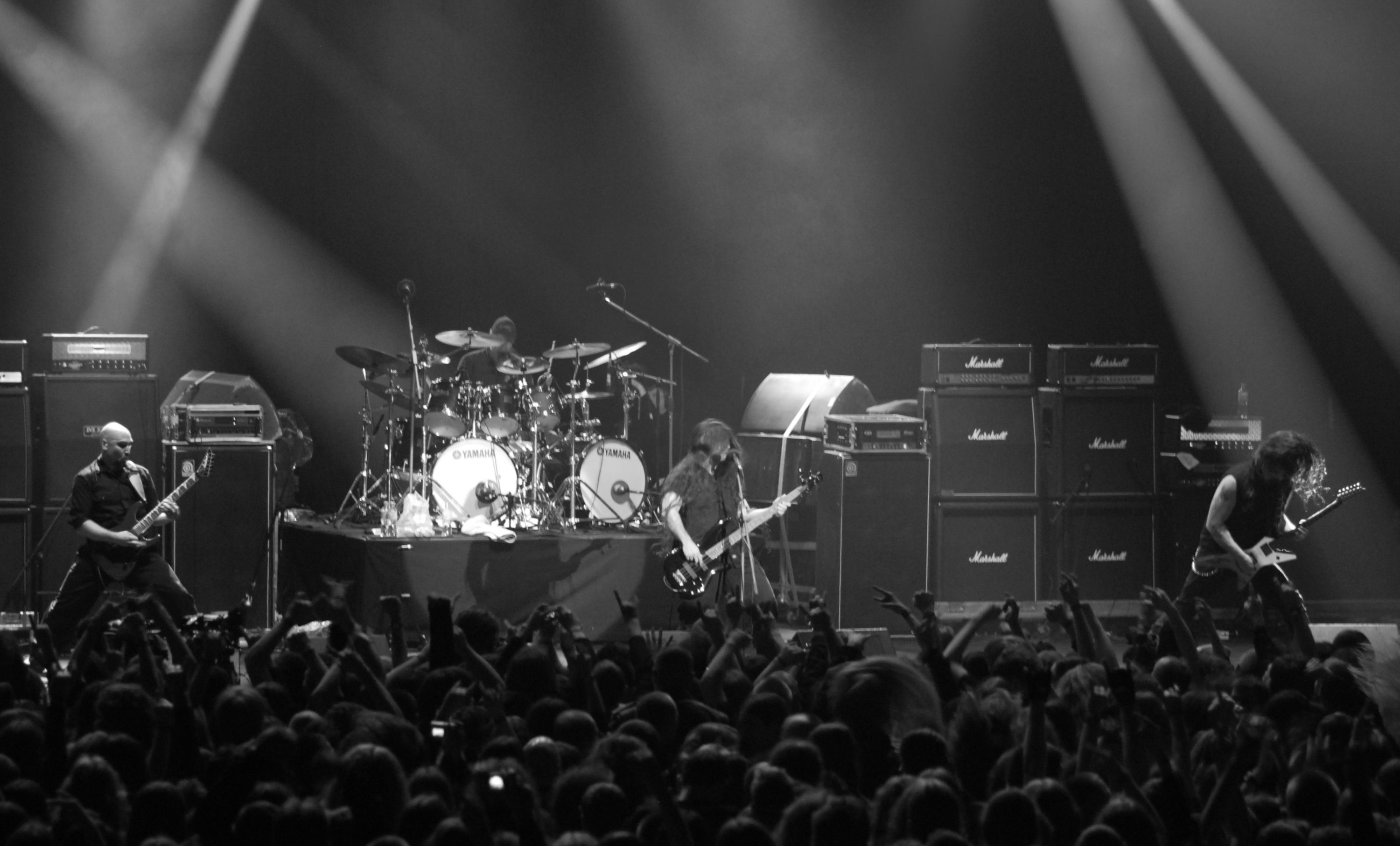 Immolation during Metalmania 2008 festival